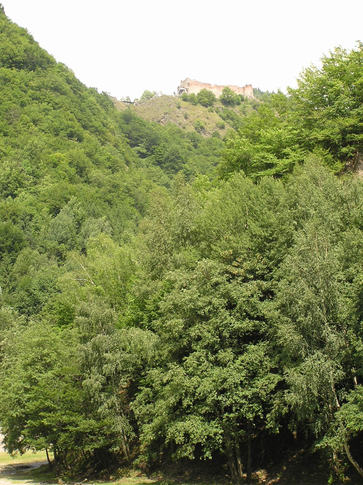 Poenari Castle in Argeş County, Romania